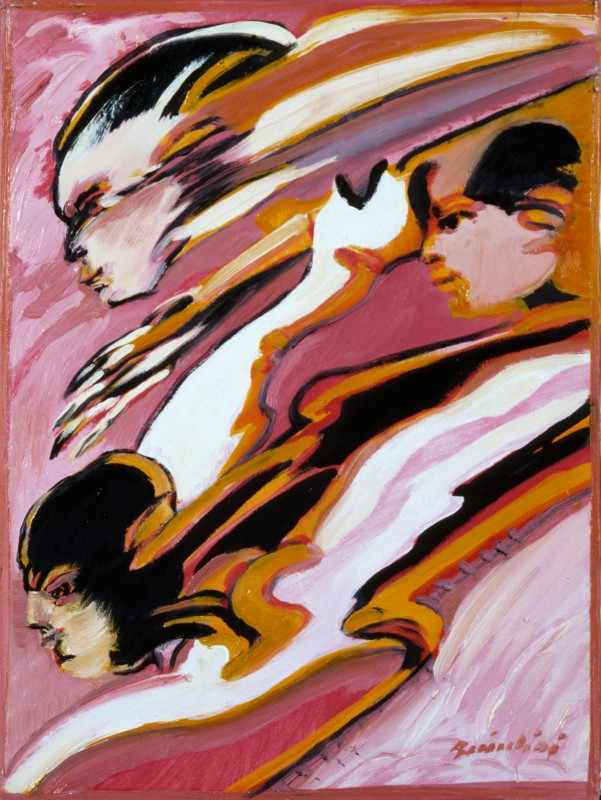 Purchased from a private collection in 1980, this work entered the Cariplo Collection under the title Three Profiles. Both the subject and composition are similar to those of the series Victors and Vanquished [1] and Opponents. Critics hold that in this repertoire the artist begins to reflect on the existential malaise of modern man, victim of the violence that undermines interpersonal relationships in contemporary society. From the 1950s on Brindisi experimented with figurative painting in the Expressionist style and a pictorial gesturality borrowed from the Art Informel models he was able to study on visits to Paris, New York and various Esposizioni Internazionali d’Arte della Città di Venezia. The artist was also influenced by the work of the Renaissance painter El Greco (born Domenikos Theotocopoulos) from whom he borrowed the sombre tone and livid light characteristic of his socially committed works, and by that of Oskar Kokoschka, one of the leading exponents of Expressionism, whom the Italian met in Salzburg in 1956. Brindisi’s mature production is characterised by the repetition of the same subjects, executed with a rapid technique that necessitated the use of acrylic colours. Datable to around the mid-1970s, the work in the Collection can be linked to this line of research on the basis of the dynamism of the figures and the use of bright colours, but the handling is both hasty and mediocre. Appointed President of the Milan Triennale in 1972, the artist continued to show his works frequently in leading private galleries in Italy and abroad, and from 1970 on he devoted himself to founding the Museo Alternativo Remo Brindisi [2] at Lido di Spina, where he built up an important collection of contemporary art that included the work of other artists along with his own.